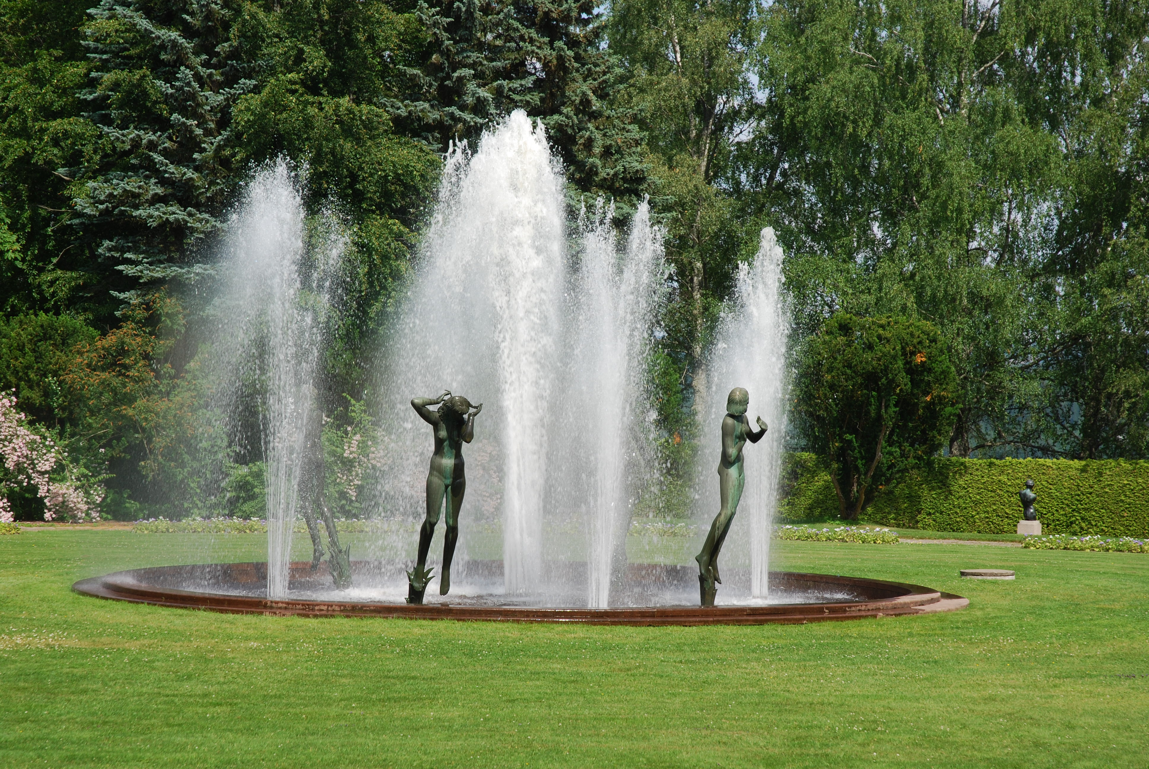 Carl Milles, four female figures, part of his work Orfeusgruppen (Orpheus Group), Rottneros Park, Sweden